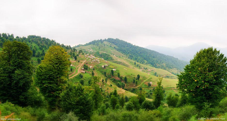 Nature of Talesh county in Gilan province. (title of picture is false)